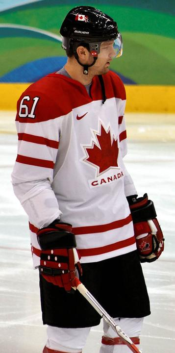 Rick Nash prior to the start of the most anticipated game of the tournament, the Gold Medal game between Canada and the USA.